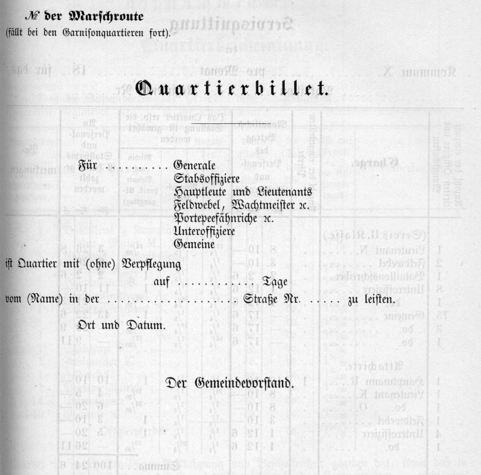 Scan from the Federal Law Gazette of the Northern-German Federation, 1869